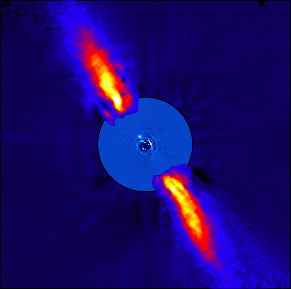 This composite image represents the close environment of Beta Pictoris as seen in near infrared light. This very faint environment is revealed after a very careful subtraction of the much brighter stellar halo. The outer part of the image shows the reflected light on the dust disc, as observed in 1996 with the ADONIS instrument on ESO's 3.6 m telescope; the inner part is the innermost part of the system, as seen at 3.6 microns with NACO on the Very Large Telescope. The newly detected source is more than 1000 times fainter than Beta Pictoris, aligned with the disc, at a projected distance of 8 times the Earth-Sun distance. This corresponds to 0.44 arcsecond on the sky, or the angle sustained by a one Euro coin seen at a distance of about 10 kilometres. Because the planet is still very young, it is still very hot, with a temperature around 1200 degrees Celsius. Both parts of the image were obtained on ESO telescopes equipped with adaptive optics.